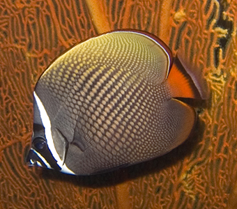 Collared butterflyfish (Chaetodon collare) Also known as a Redtail Butterflyfish.